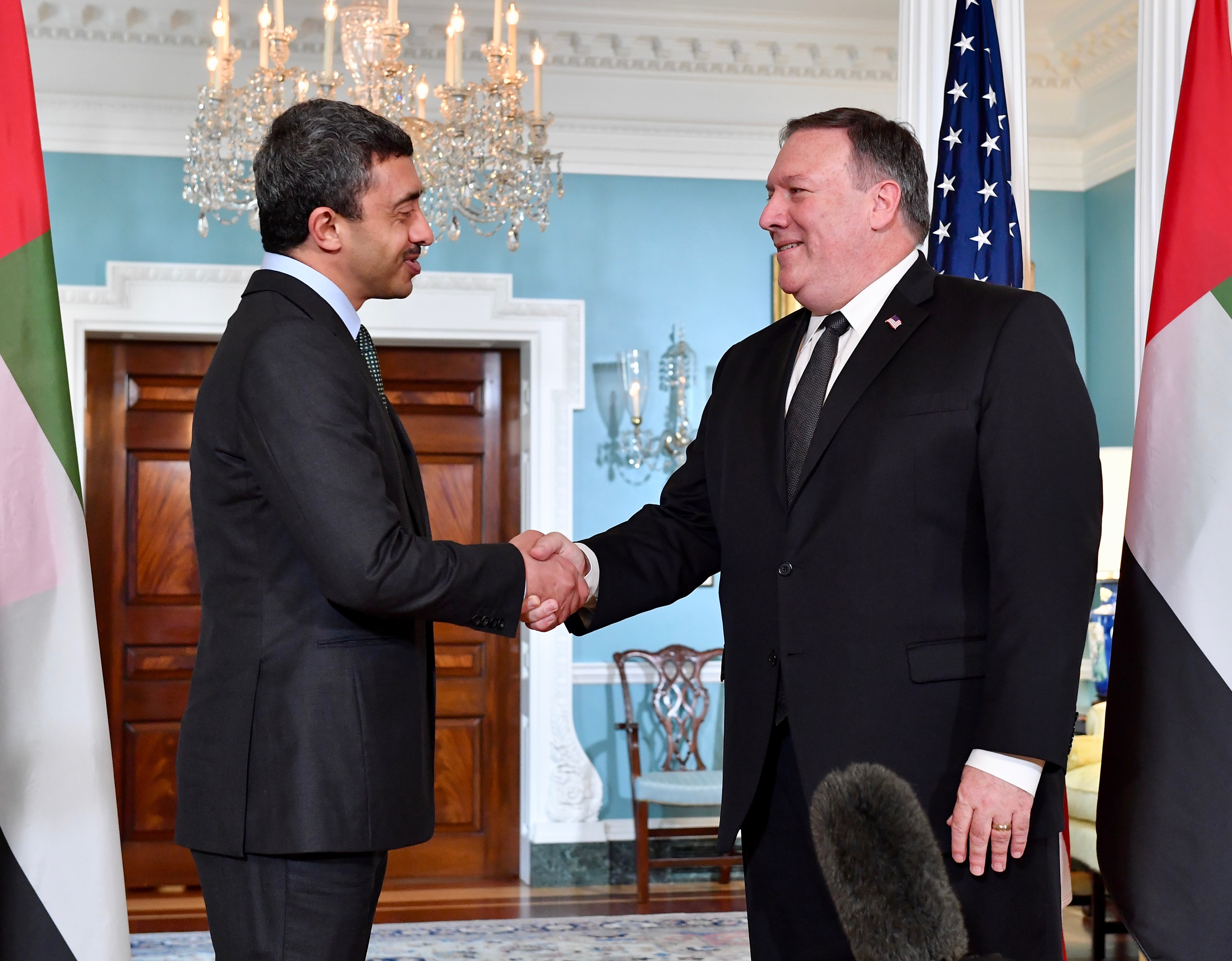 U.S. Secretary of State Mike Pompeo shakes hands with UAE Foreign Minister Sheikh Abdullah bin Zayed Al Nahyan at the U.S. Department of State in Washington, D.C., on May 14, 2018. [State Department photo/ Public Domain]